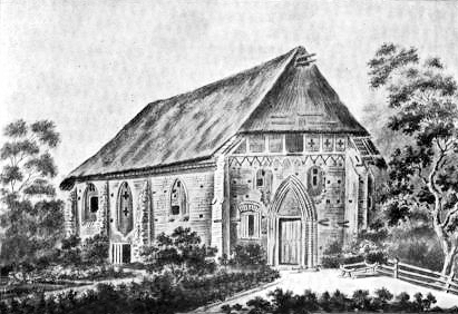 Kloster Doberan Kapelle Althof / Monastery Doberan, chapel in Althof